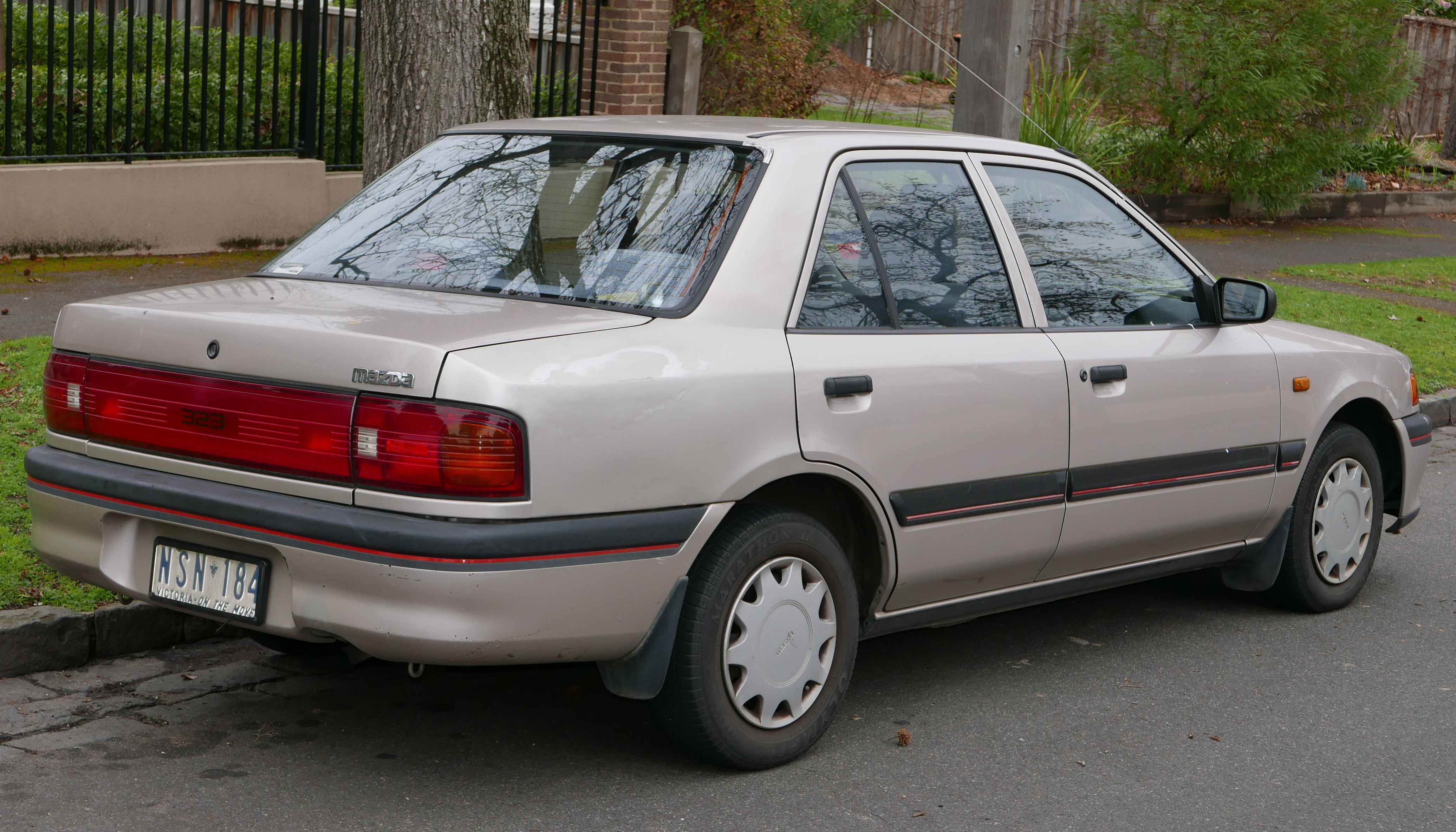 1996 Mazda 323 (BG Series 2) 1.6 sedan. Photographed in Kew, Victoria, Australia. Vehicle registration enquiry results Jurisdiction Victoria Registration NSN184 Chassis code JM0BG106200171064 Engine code B6515428 Compliance date 1996-02 Year of manufacture 1996